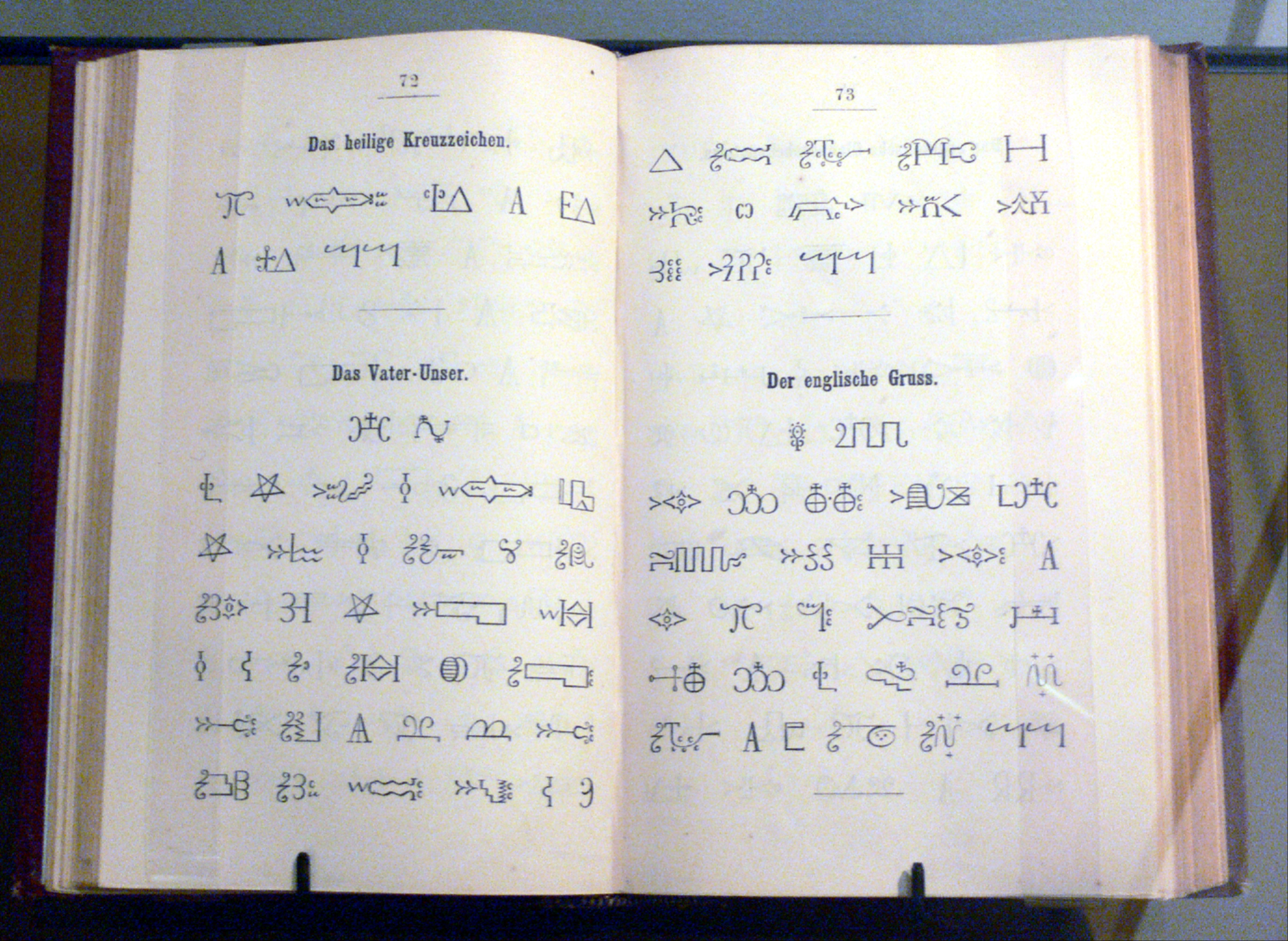 Holy Cross sign, Our Father and Ave Maria from the Catechism, Prayer Book and Hymnal in Micmac writing, by Christian Kauder, printed in Vienna in 1866; North America department, Ethnological Museum, Berlin, Germany